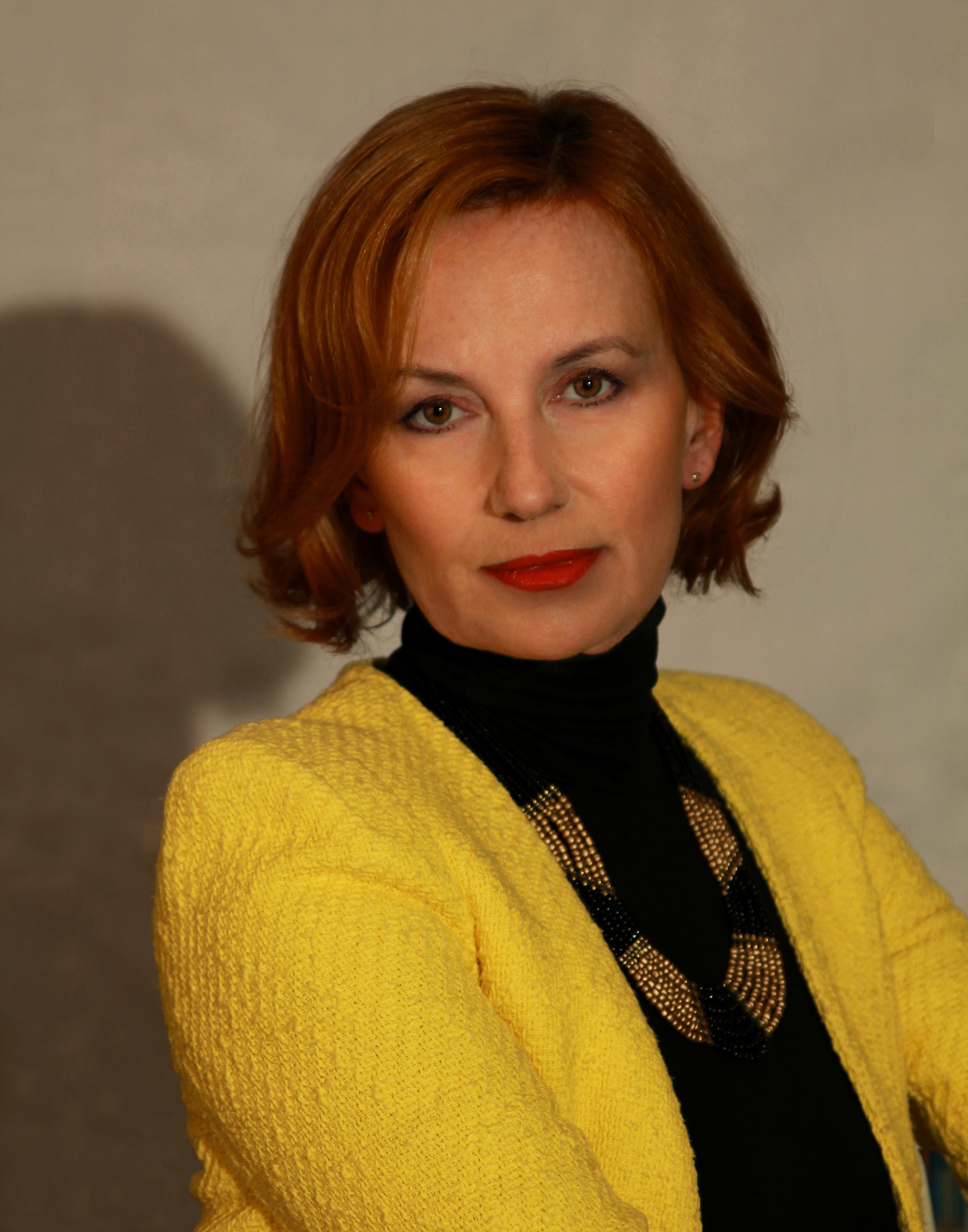 Portrait Vlatka Oršanić